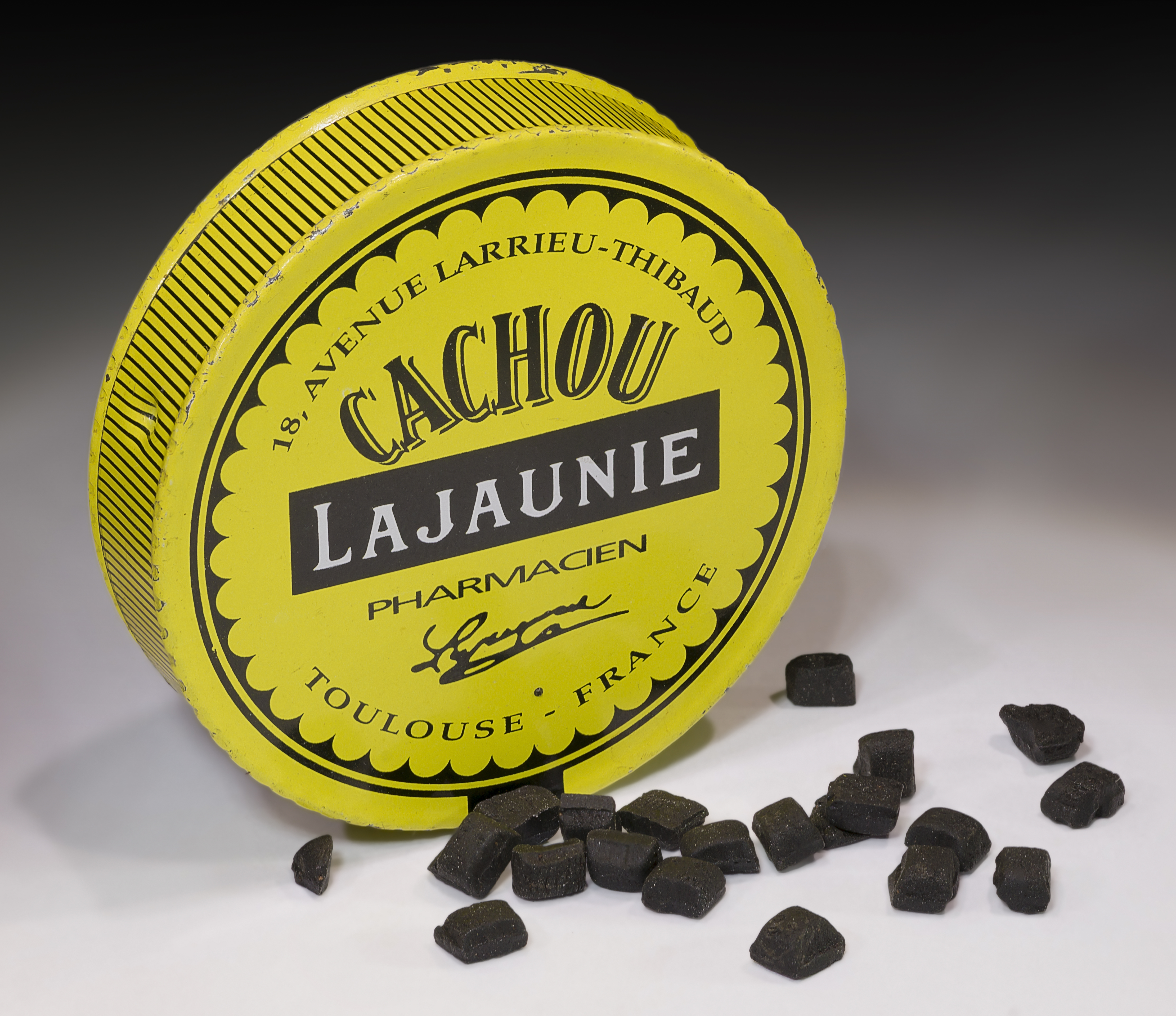 The Cachou Lajaunie is a small square patch of black licorice sold in a metal box in yellow and round. It exists since 1880 in Toulouse. More than ten million boxes are sold each year.